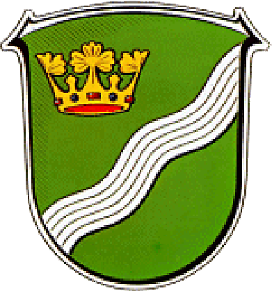 Coat of Arms of Flieden